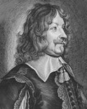 Abel Servien, french minister of Louis XIV